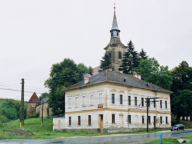 Schaas, Romania